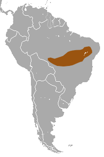 Karimi's Fat-tailed Mouse Opossum (Thylamys karimii) range